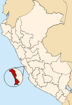 Location of the Callao region in Peru.